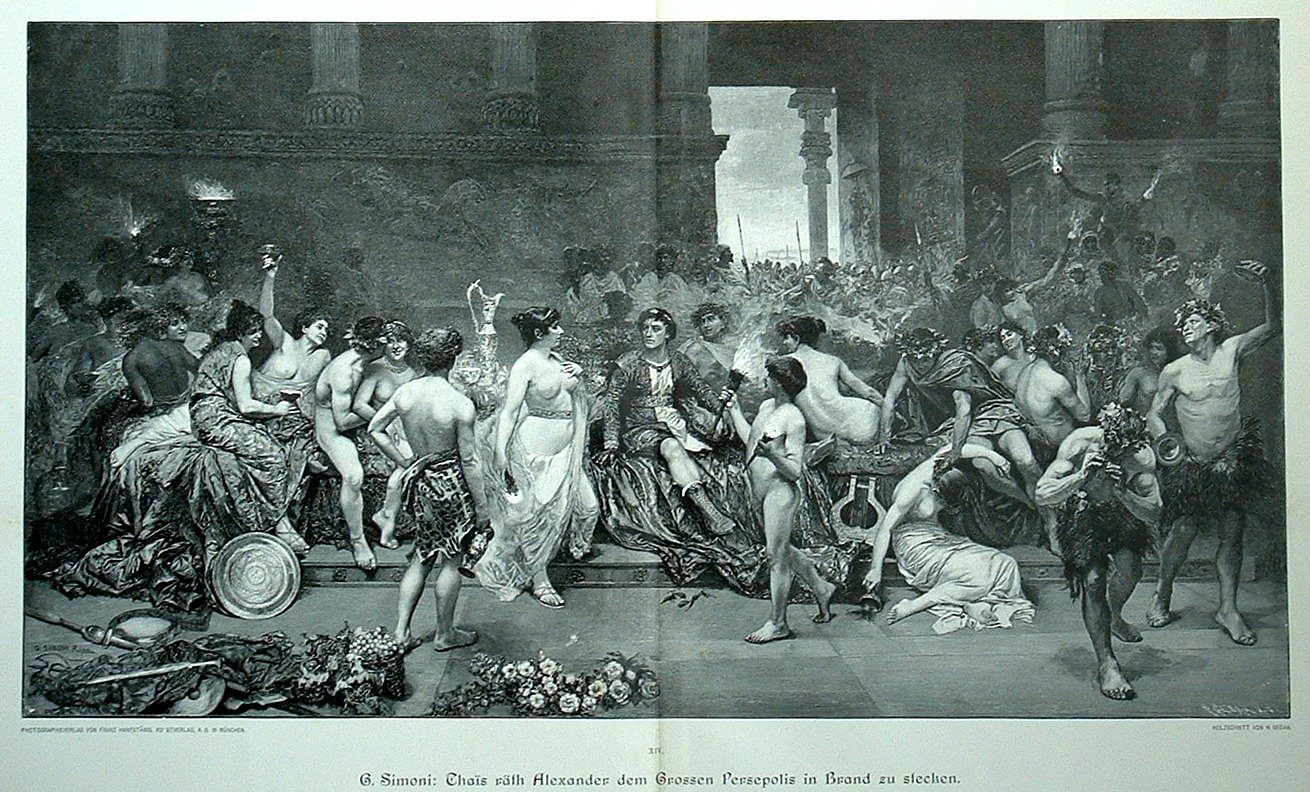 Thais calls upon Alexander the Great to put the palace of Persepolis to the torch.label QS:Len,"Thais calls upon Alexander the Great to put the palace of Persepolis to the torch."label QS:Lfr,"Thais demande à Alexandre le grand de bruler le palais de Persepolis"